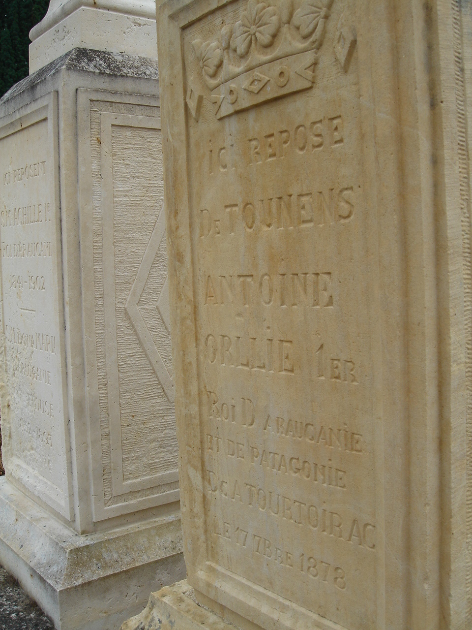 The gravestone of Orélie-Antoine de Tounens and his wife in Tourtoirac. The inscription identifies him as Roi d'Araucanie et de Patagonie, King of Araucania and Patagonia.